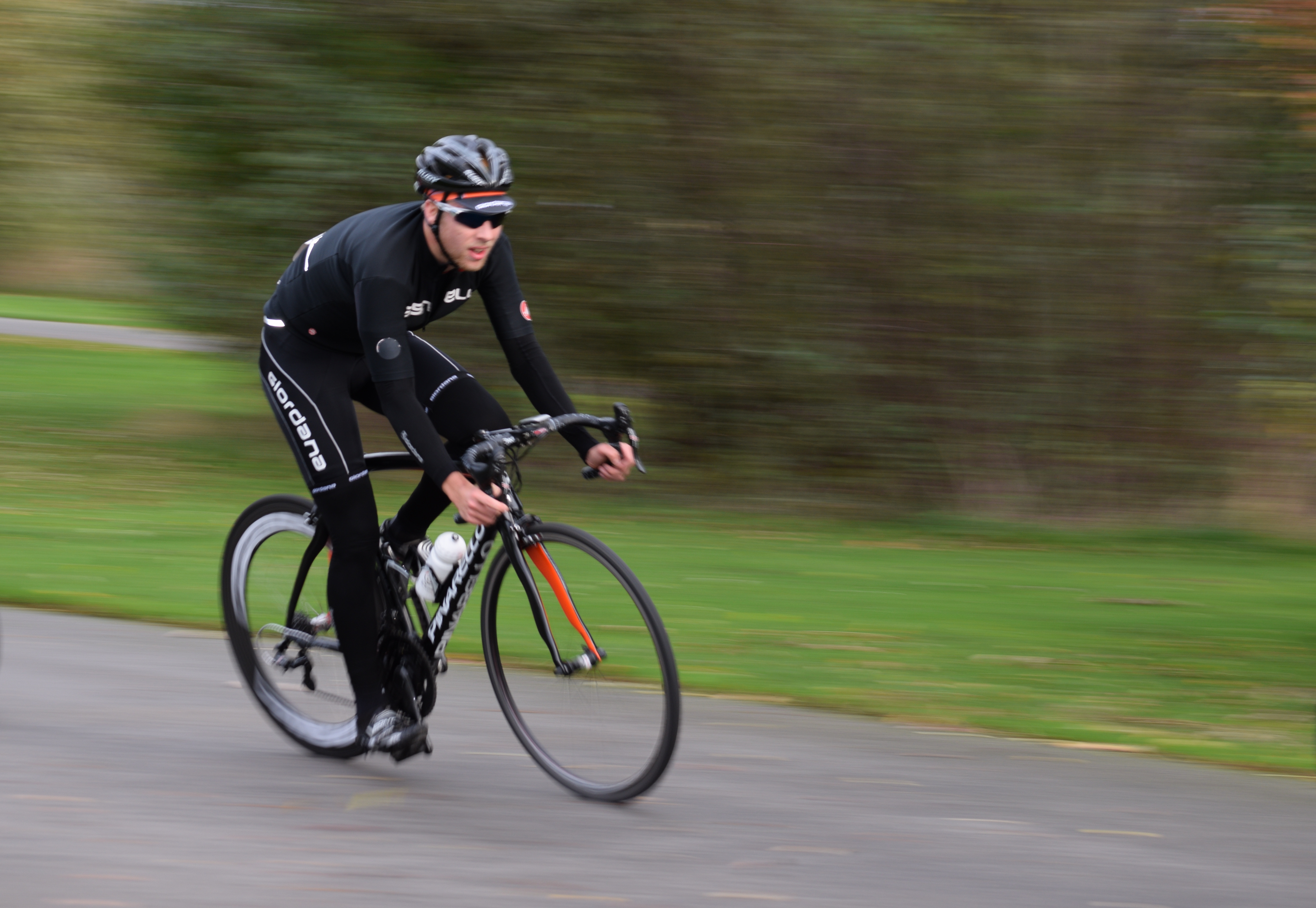 Gullen representing Team Gabba at Salt Ayre.